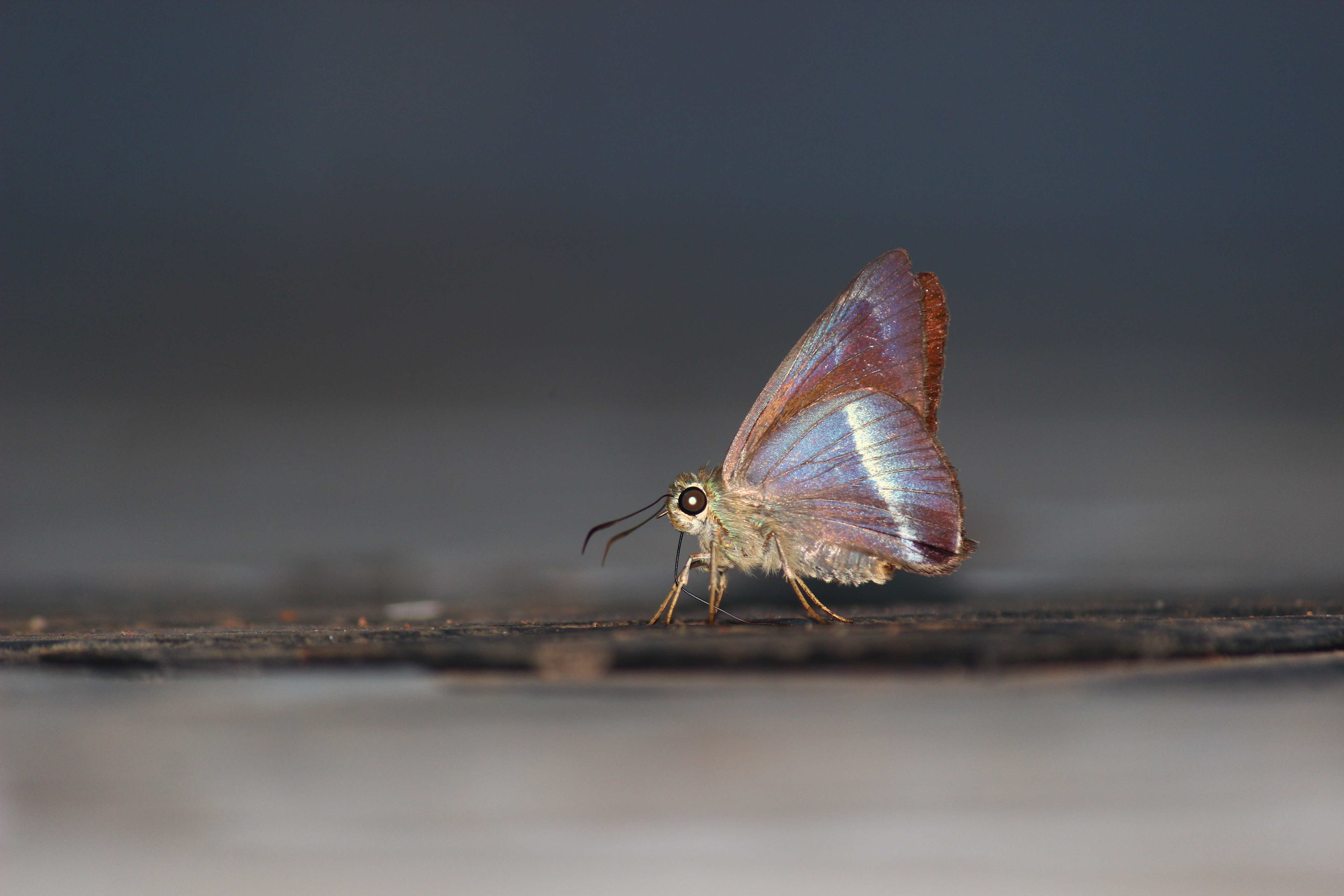 Hasora chromus (Cramer, [1780]) – Common Banded Awl Common Banded Awl, is a butterfly belonging to the family Hesperiidae, which is found in Asia.